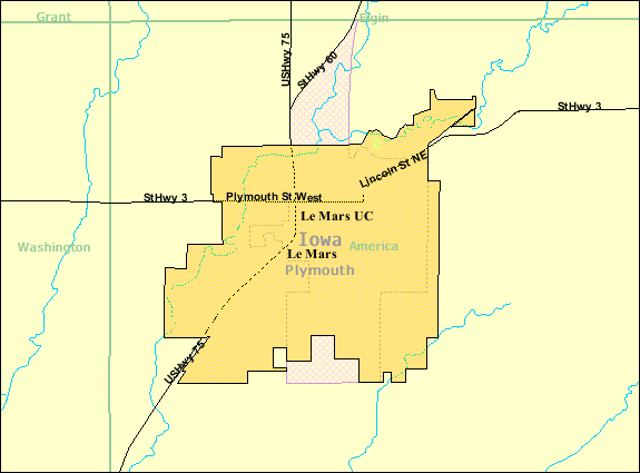 U.S. Census 2000 reference map for Le Mars .